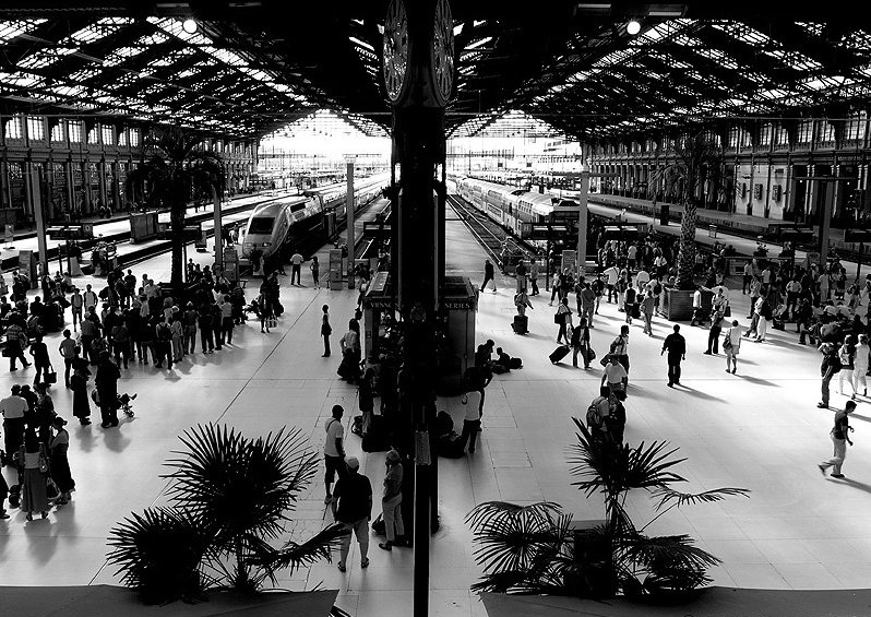 Interior view of Gare de Lyon, Paris, France